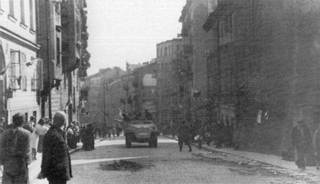 Warsaw Uprising: German armored fighting vehicle SdKfz 251 captured by the Polish insurgents, from 8-th "Krybar" Regiment, on Na Skarpie Boulevard on August 14, 1944 from 5th SS 'Viking' division. This picture taken on Tamka Street. The insurgents gave the vehicle name "Gray Wolf" and used it in attack on Warsaw University.